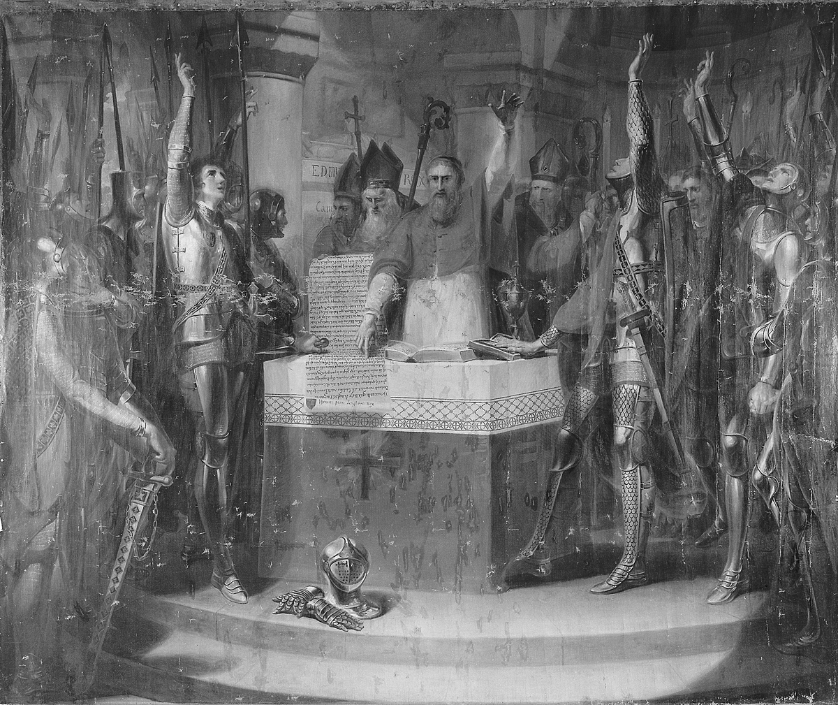 The subject is recorded in Roger of Wendover's 'Flores historiarum': on St Edmund's Day, 20 November 1214, the nobles and barons of England met at St Edmund's Abbey to swear that, if King John refused to uphold the liberties and laws granted to the church under the Cardinal-Archbishop of Canterbury, Stephen Langton (d.1228), they would withdraw their allegiance to the crown.